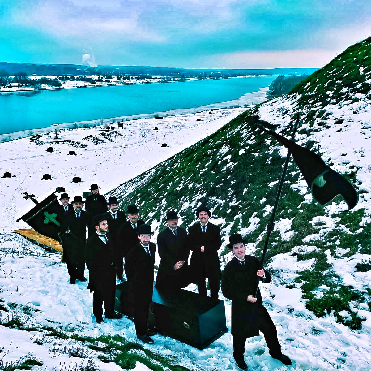 New movie of Davis Simanis JR - A Year before war - winter episode